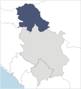 Locator map of Vojvodina in Serbia.